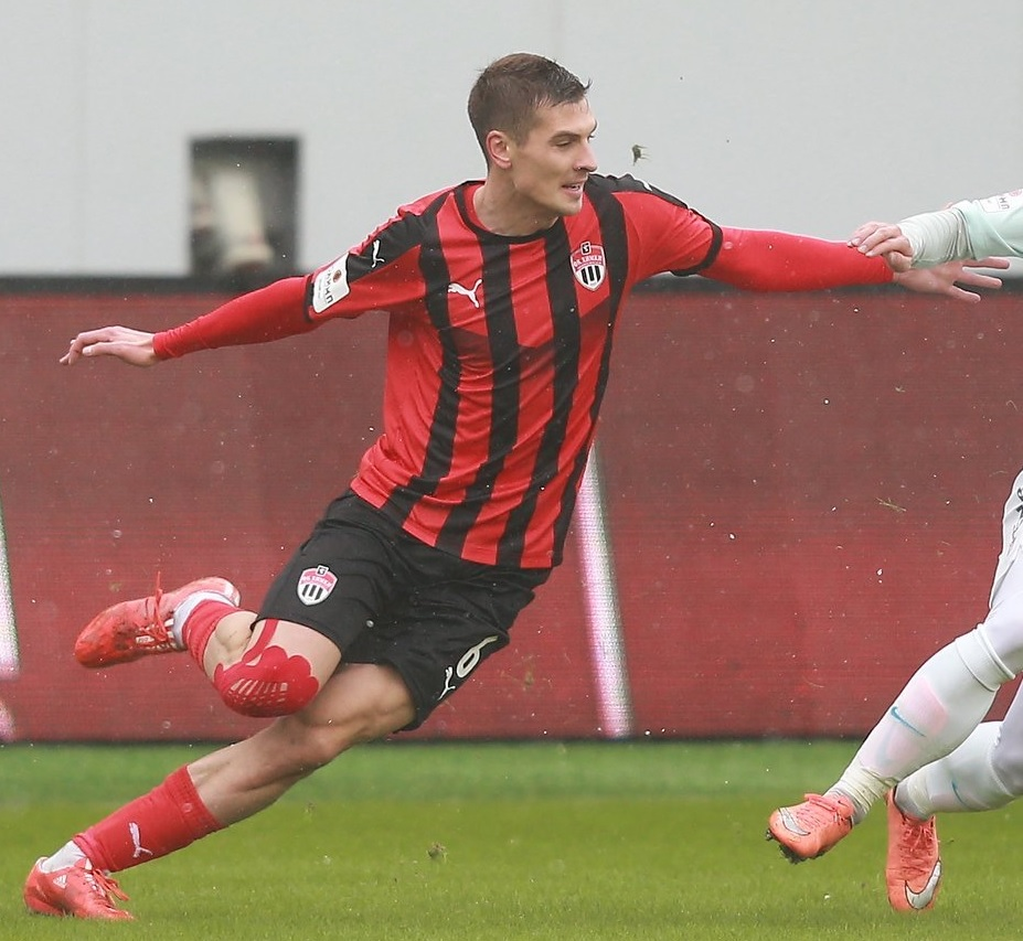 Dmitri Tikhiy with FC Khimki in a game against FC Zenit-2 Saint Petersburg.